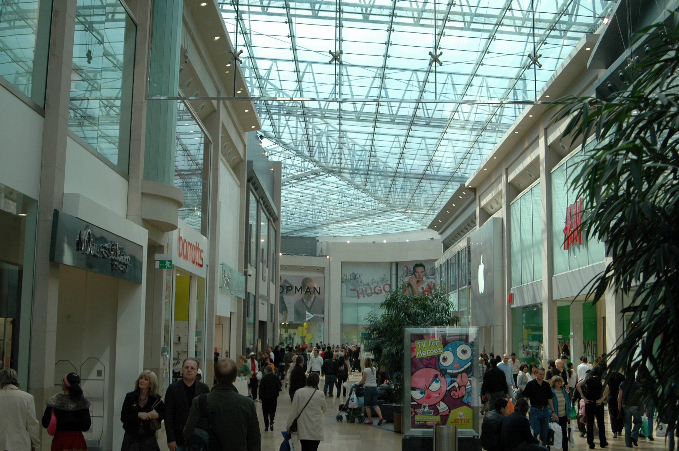 This is the inside of the Bullring Shopping Centre in Birmingham, England.